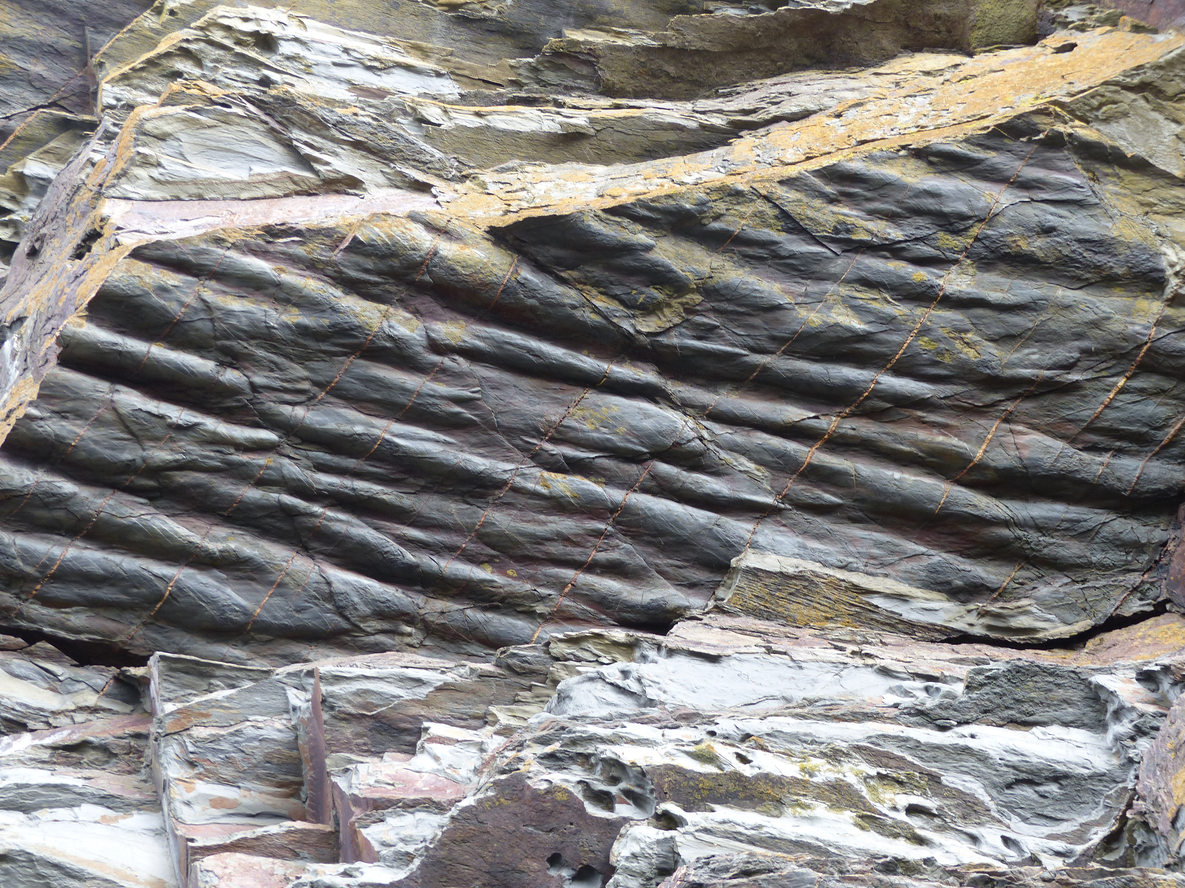 Flute casts on the lower bedding surface of rocks of Neoproterozoic (Brioverian) age near Keric Bihan in Brittany, France. The view is about 50 centimetres across.